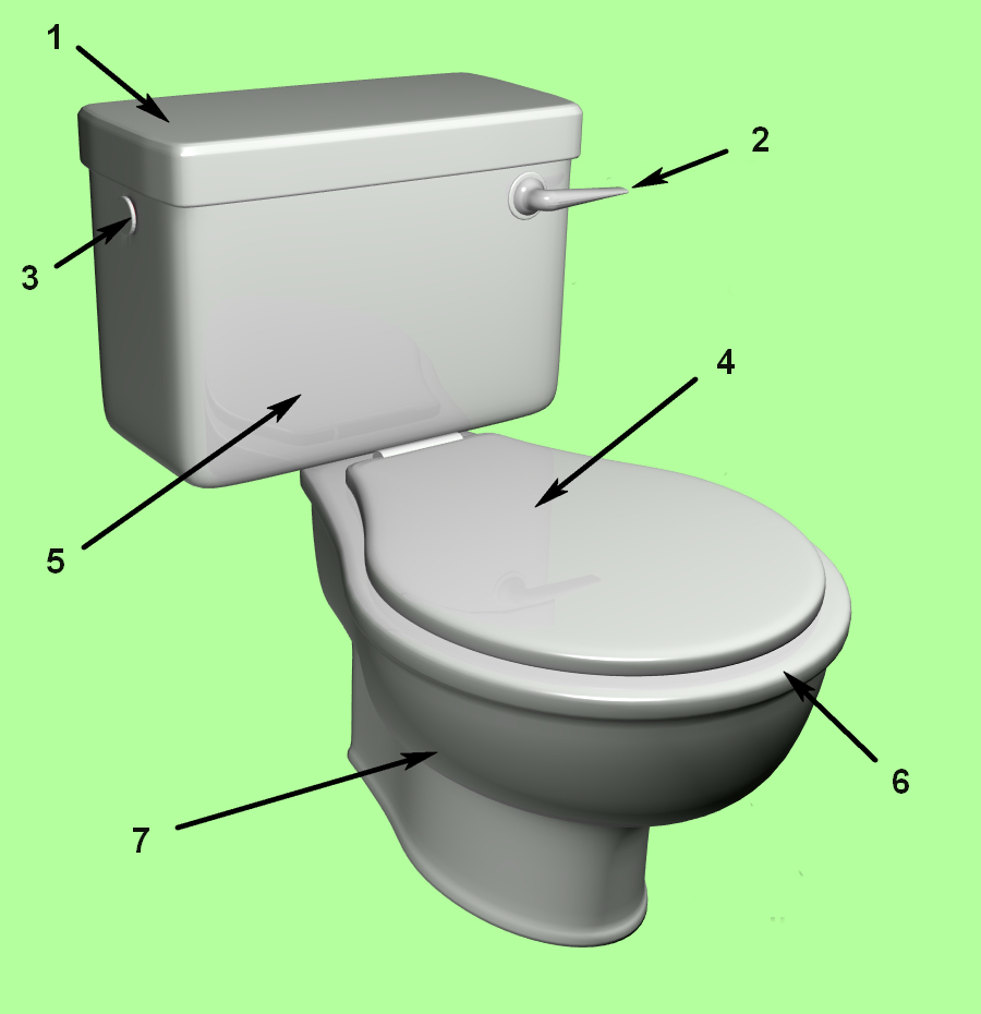 Flush toilet